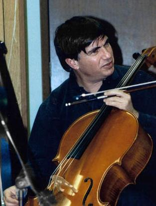 This is a photo of Jeff Solow in Alaska.